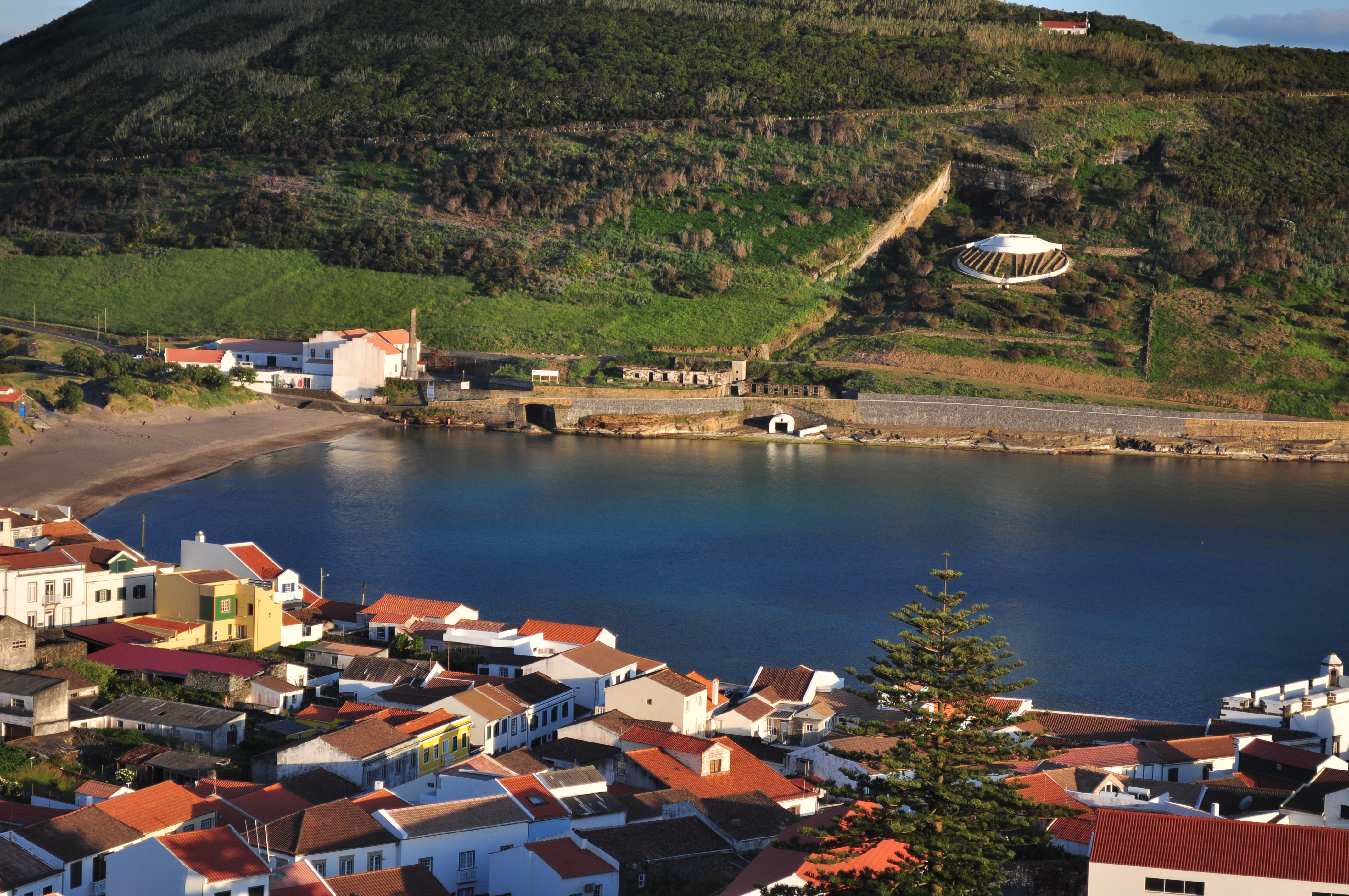 Porto Pim Beach and Bay